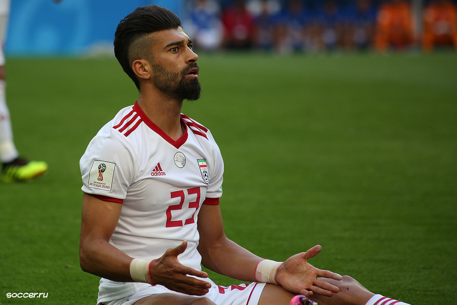 Iran-Morocco match, 2018 FIFA World Cup